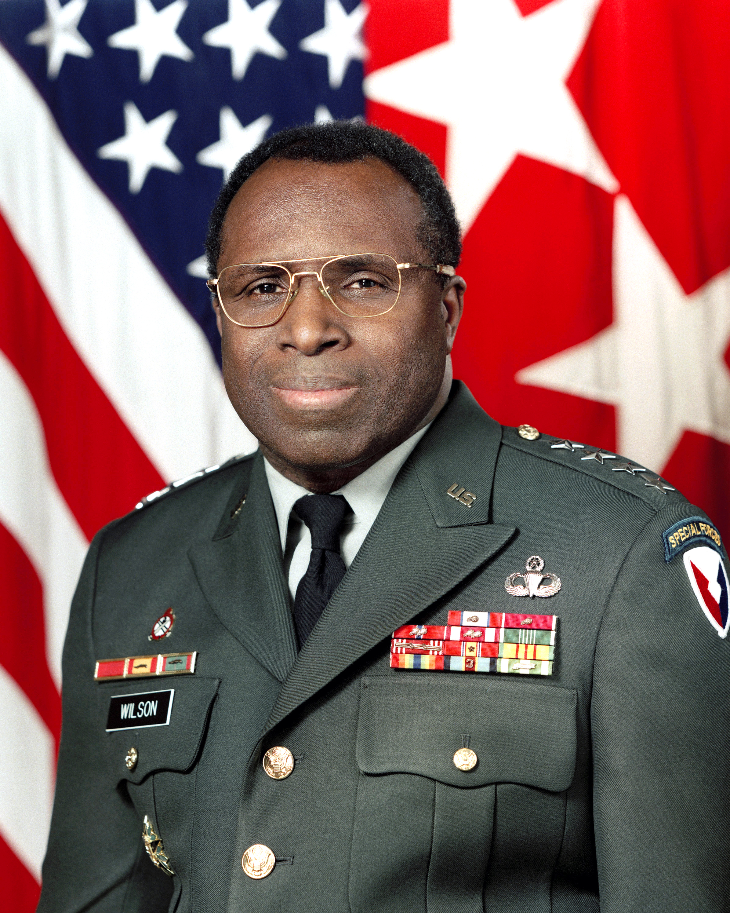 Portrait of U.S. Army Gen. Johnnie E. Wilson, (Uncovered), Deputy Chief of Staff for Logistics, Department of the Army. (U.S. Army photo by Mr. Scott Davis) (Released) (PC-192611)